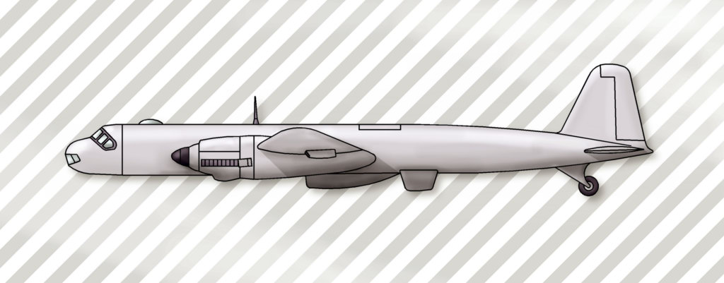 Henschel Hs 130 sketch